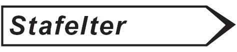 Diagram of road signs of Luxembourg